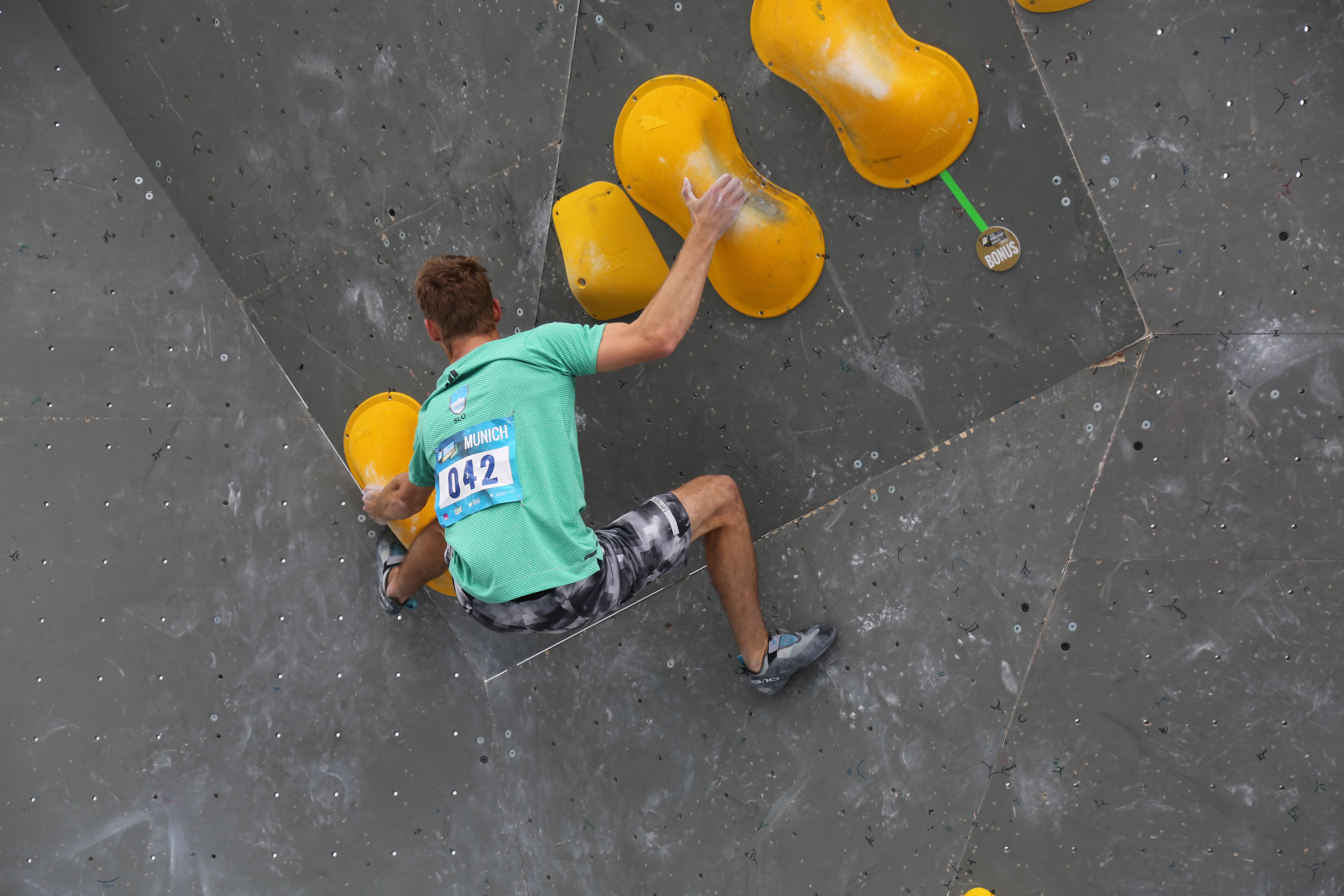 Anze Peharc, SLO, at the Boulder Worldcup 2017 in Munich, Germany